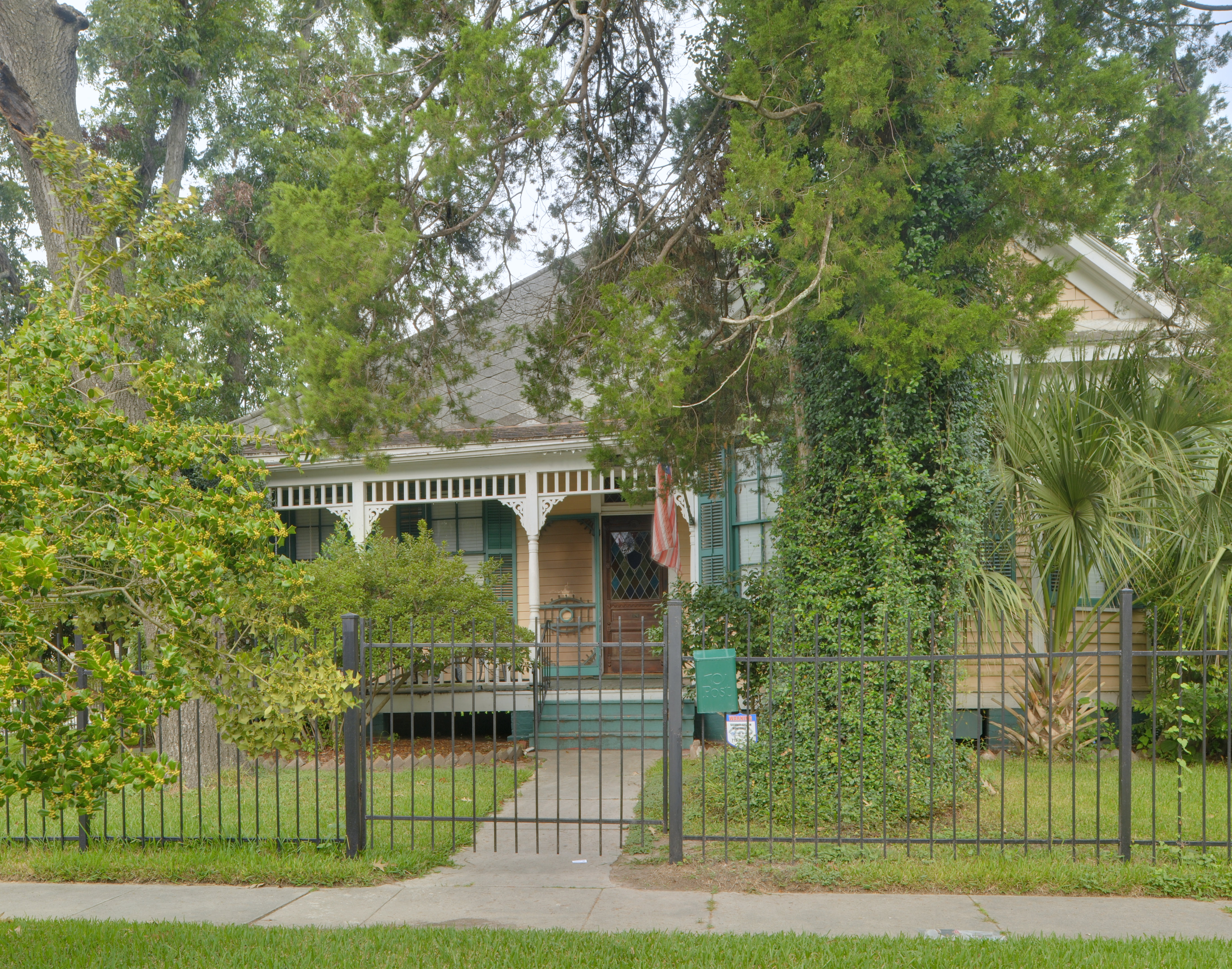 Borgstrom House, 1401 Cortlandt St., the Heights, Houston (Texas, USA) is listed in the National Register of Historic Places, United States Department of the Interior.